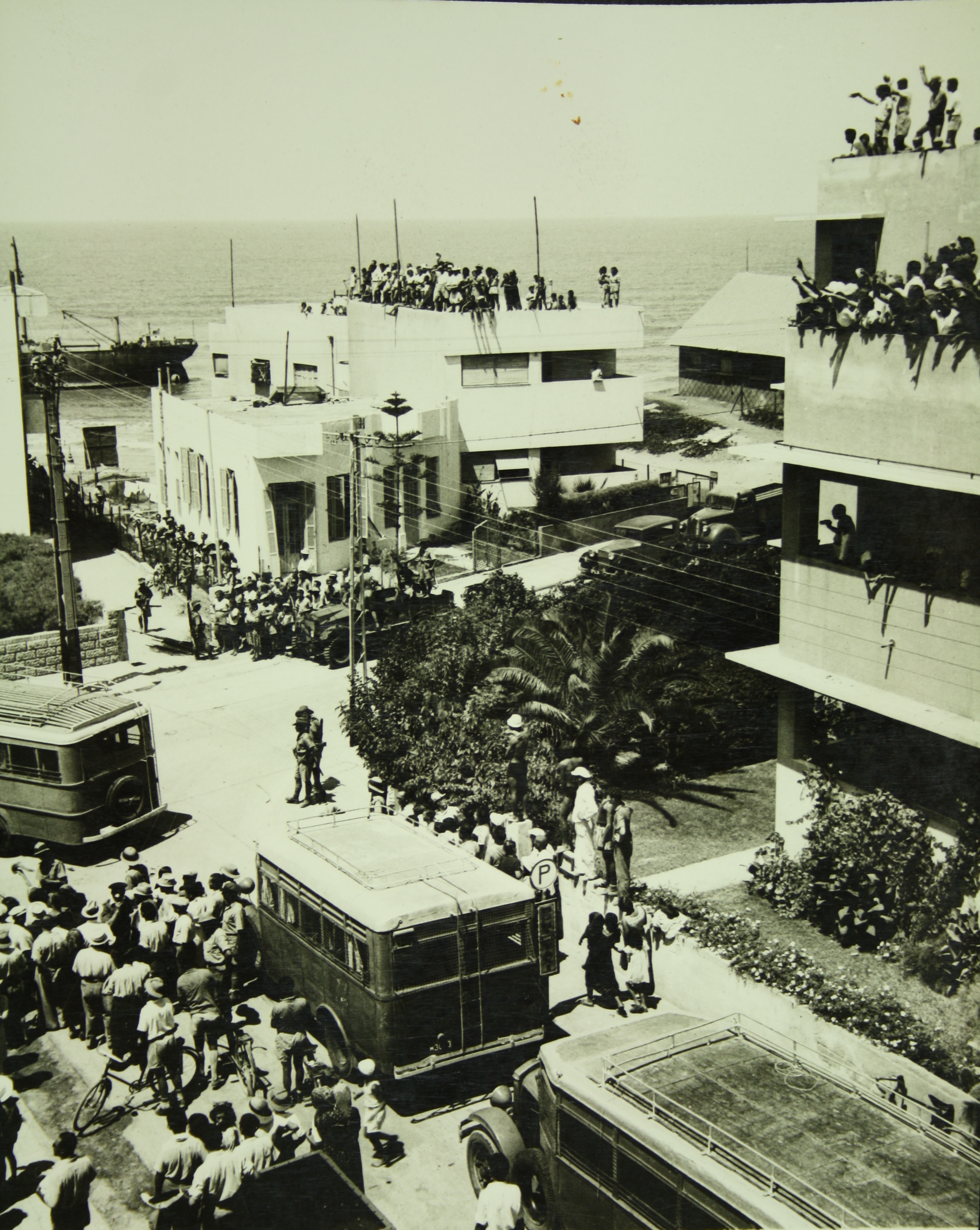 Photographs in the National Library of Israel